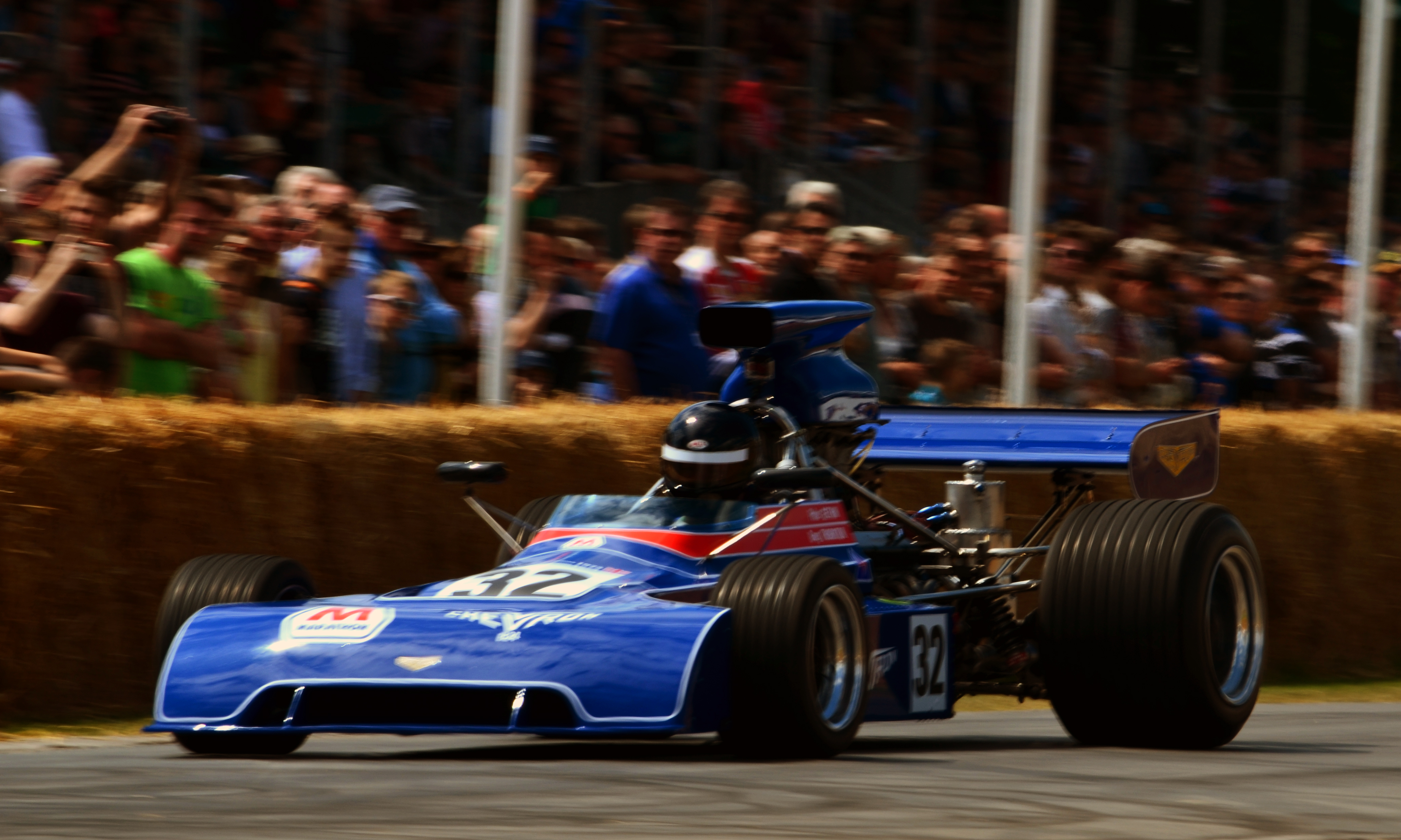 The 1972 Chevron B24 F5000 car at the 2014 Goodwood Festival of Speed.